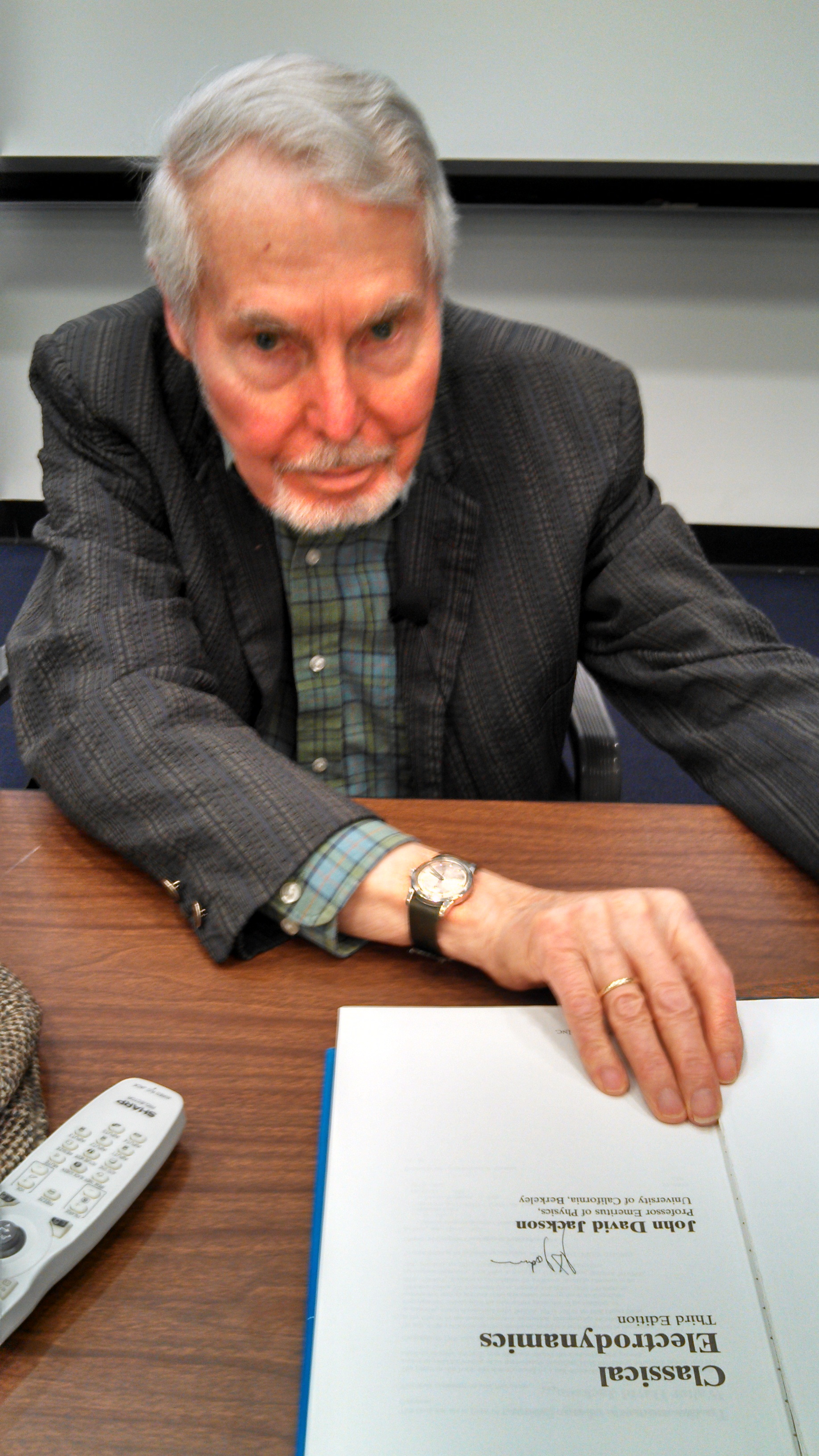 John David Jackson autographing a copy of his classical electrodynamics textbook.